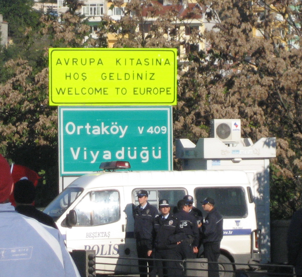 The "Welcome to Europe" roadsign encountered after passing the Bosphorus Bridge from the Asian side, Istanbul, Turkey